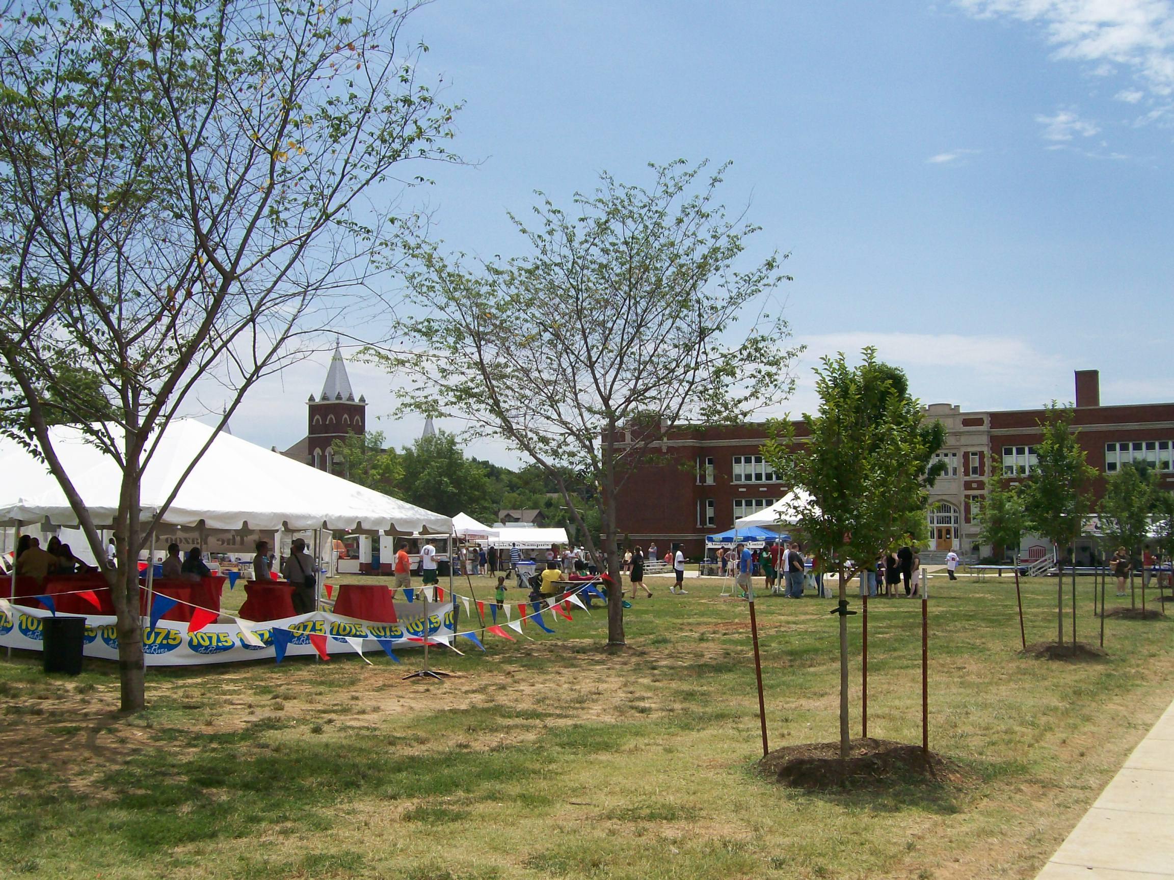 Photo of East Park